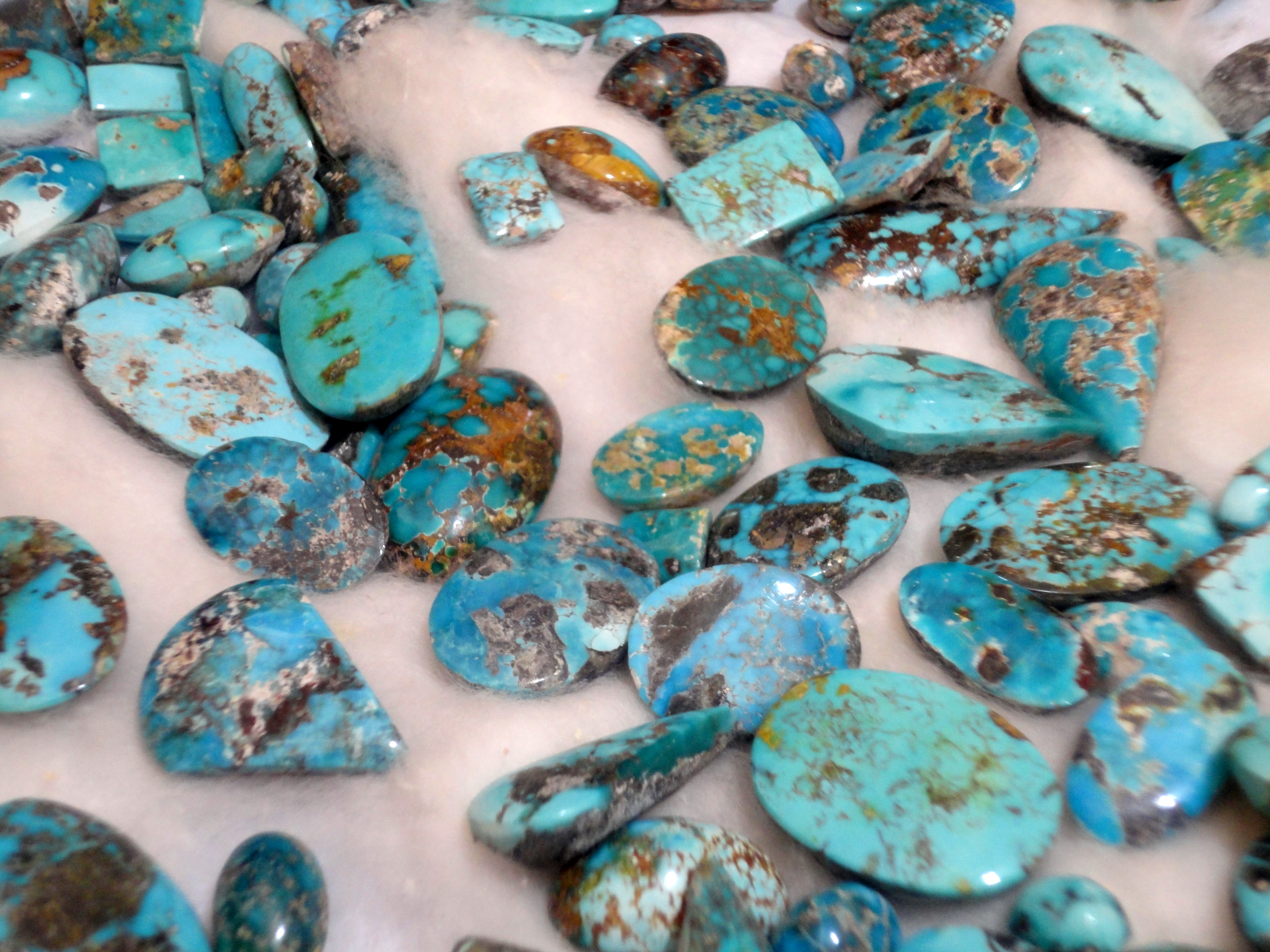 Turquoise of Nishapur - village of Ma'dan